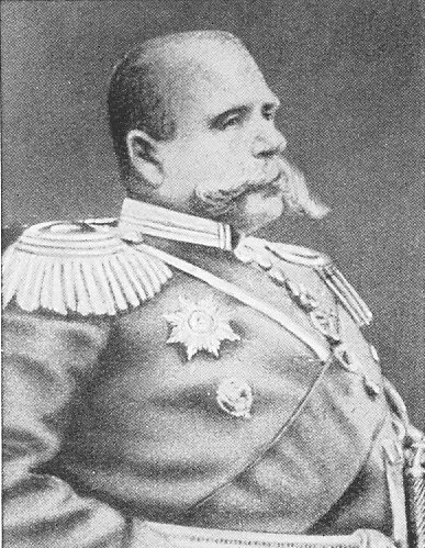 Paul von Rennenkampf, Adjudant-General, General of the cavalry